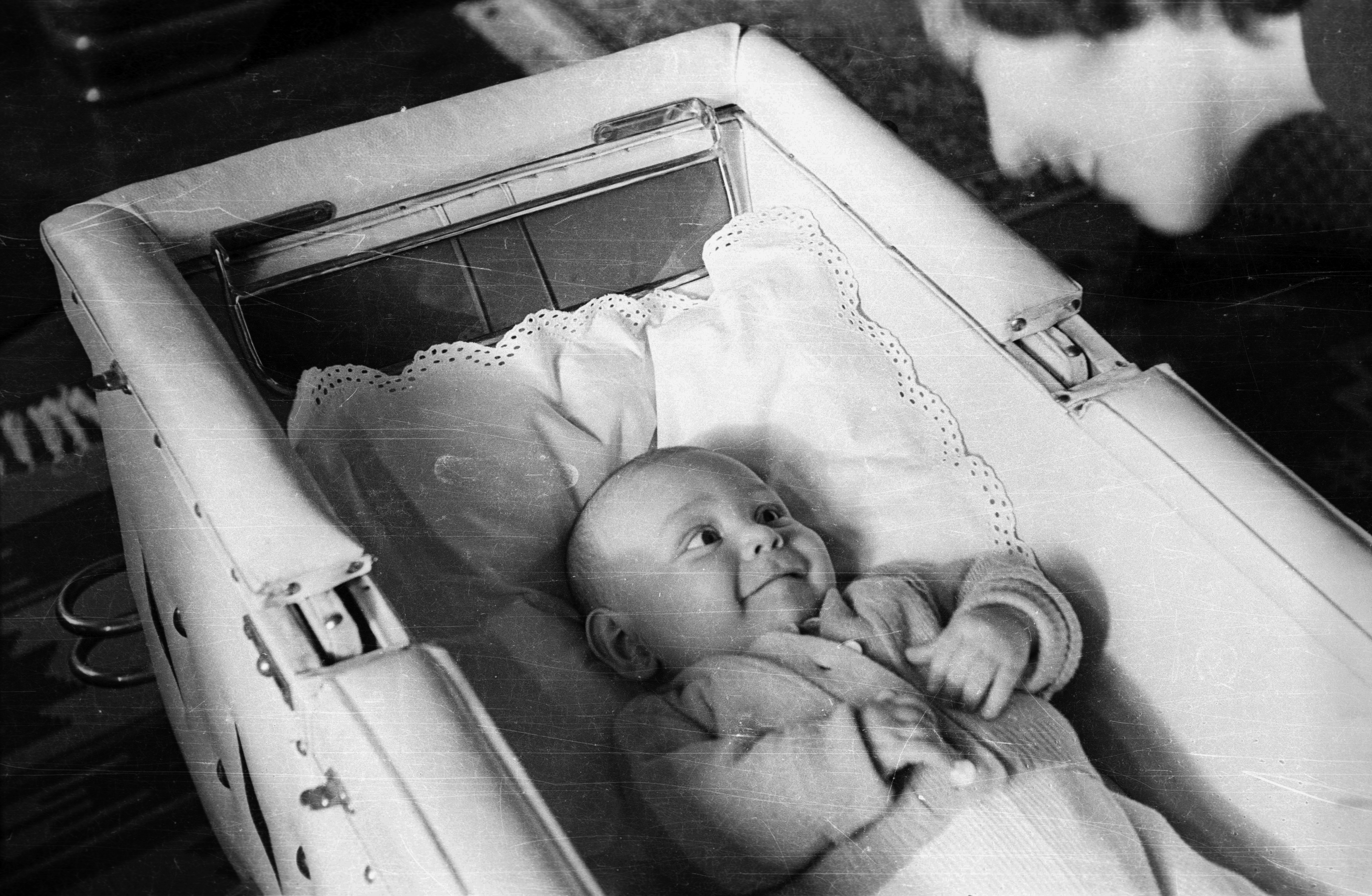 Tags: baby carriage, woman, mother, newborn, portrait